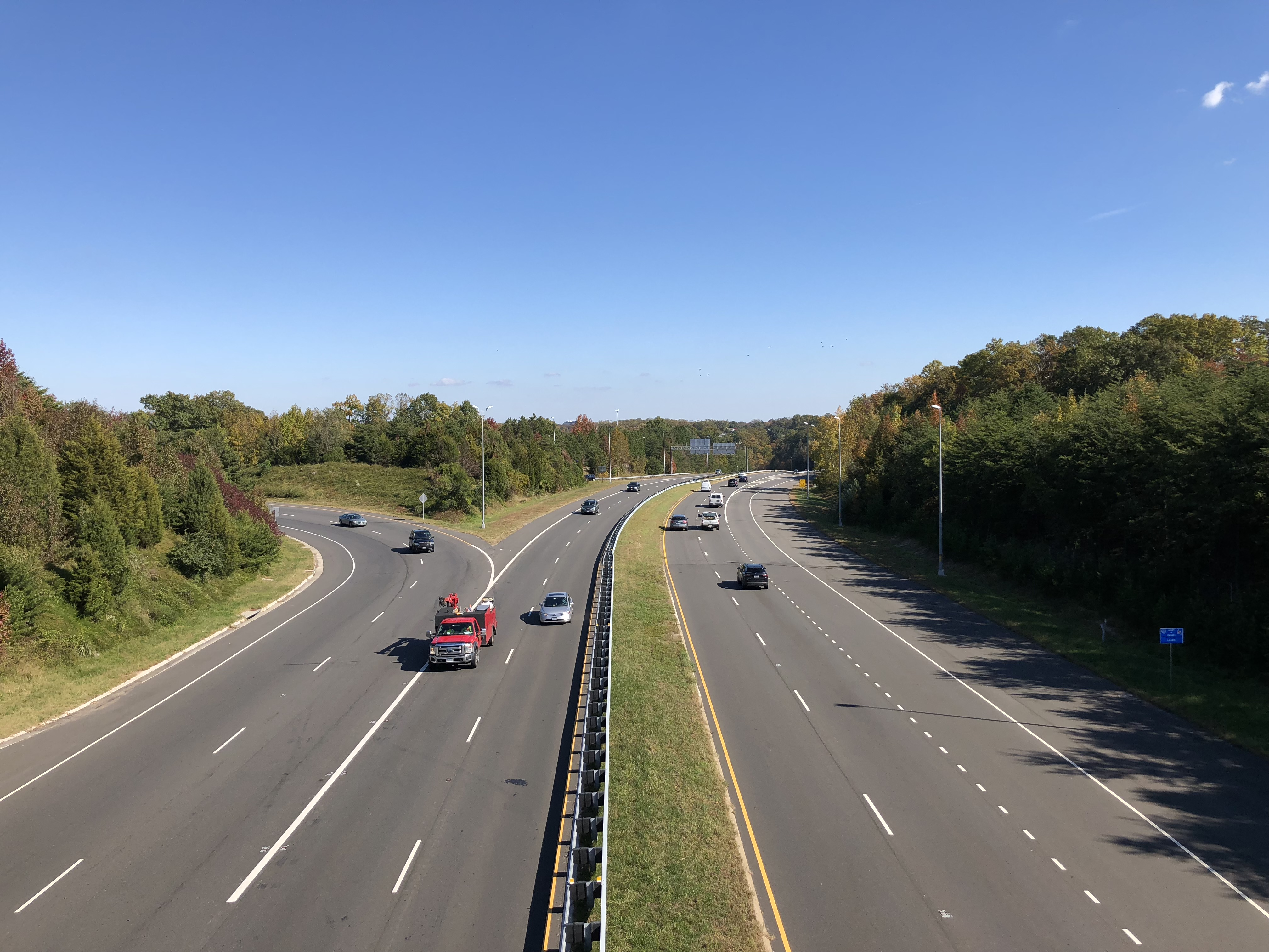 View east at the west end of Virginia State Route 289 (Franconia-Springfield Parkway) from the overpass for Virginia State Routes 286 and 638 (Fairfax County Parkway and Rolling Road) in West Springfield, Fairfax County, Virginia